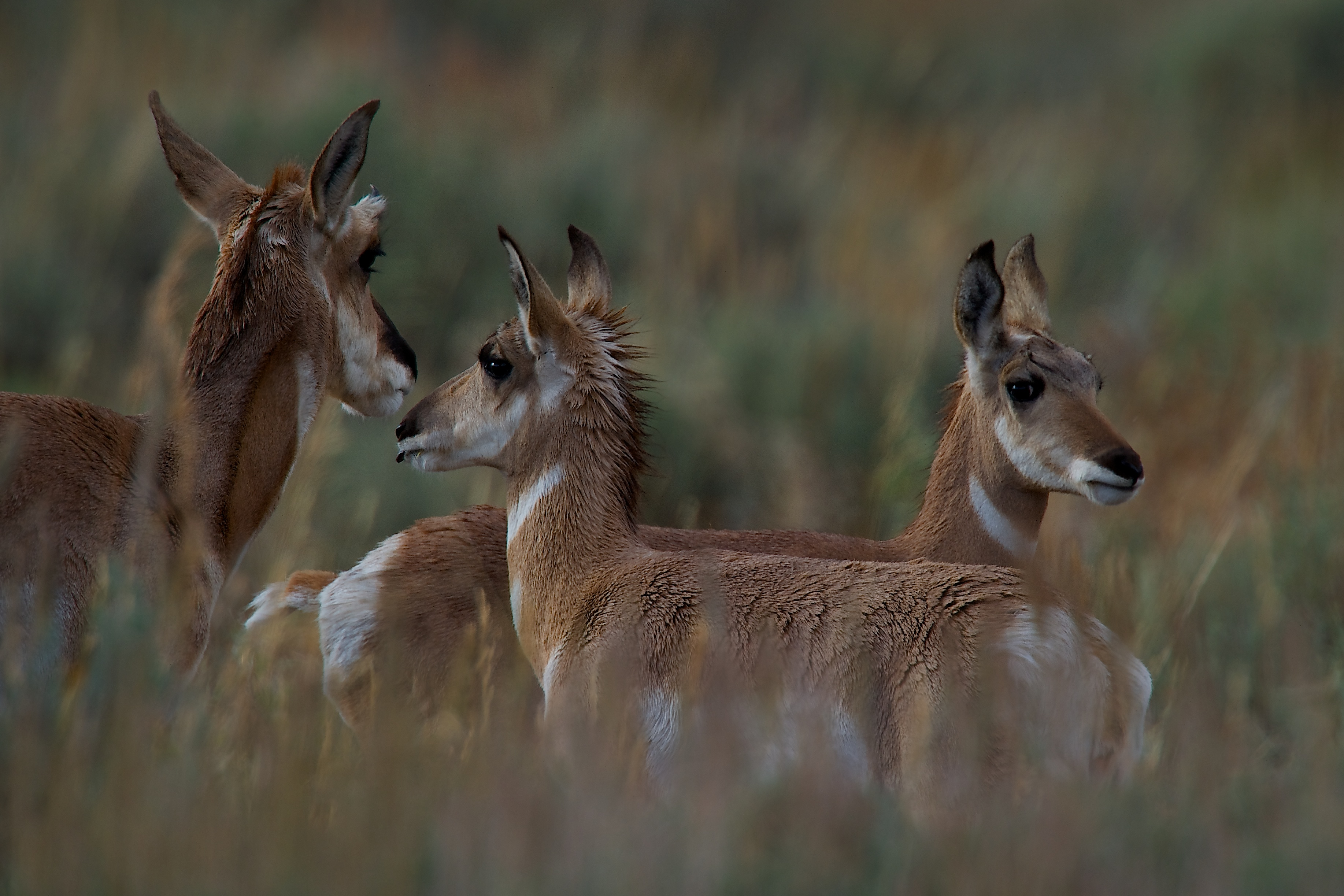 Shots from the Fall Photography at the Summit workshop in October 2010